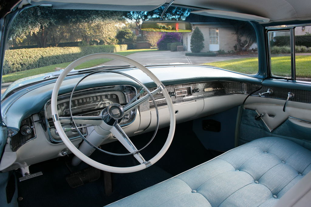 This is a picture of a vehicle (name of it is on the file name).